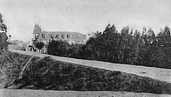 Original caption says "The wide road that conducts to the Hotel of Pichilemu, whose building can be seen at the background."